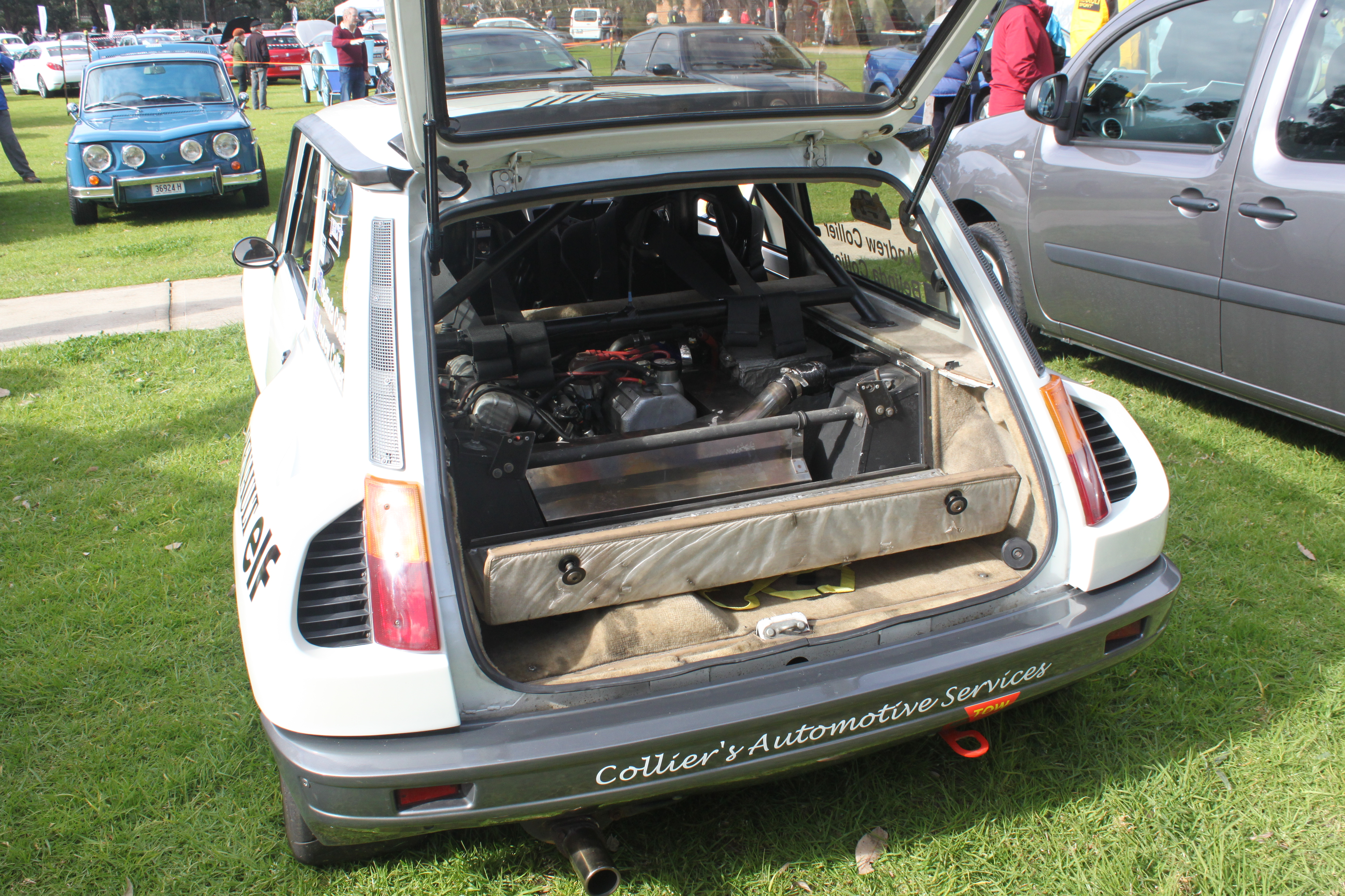 All French Day, Silverwater Park, NSW July 2015